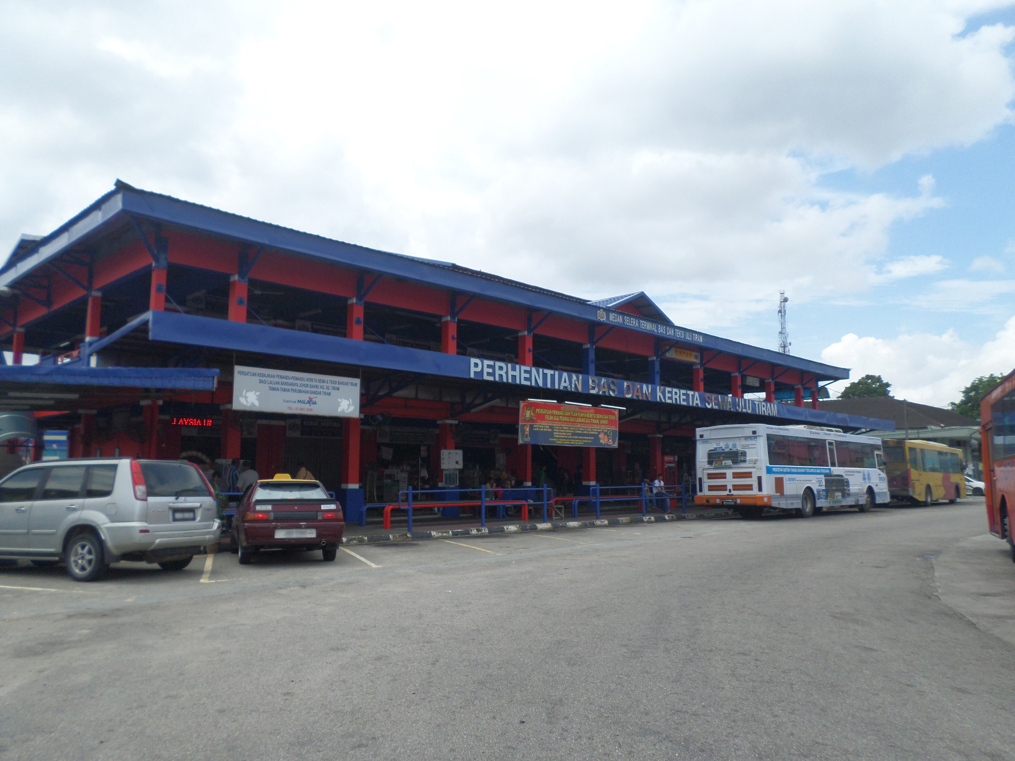 Ulu Tiram Bus and Taxi Stop, Ulu Tiram, Johor Bahru, Johor, Malaysia